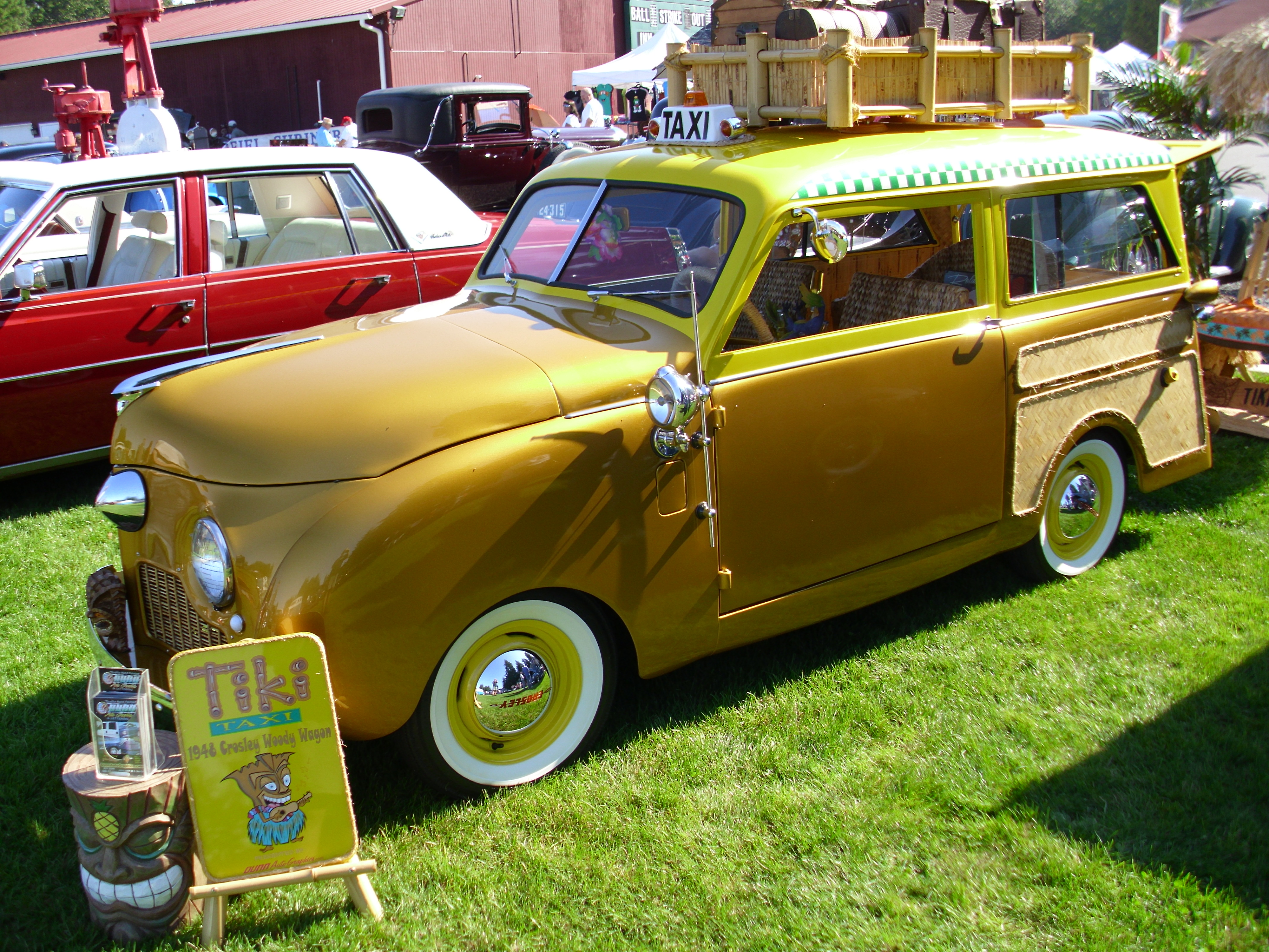 On display in the car show that went along with the Open House at the LeMay Family Collection.